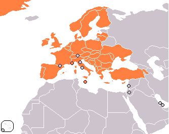 Map of Eurocontrol Members